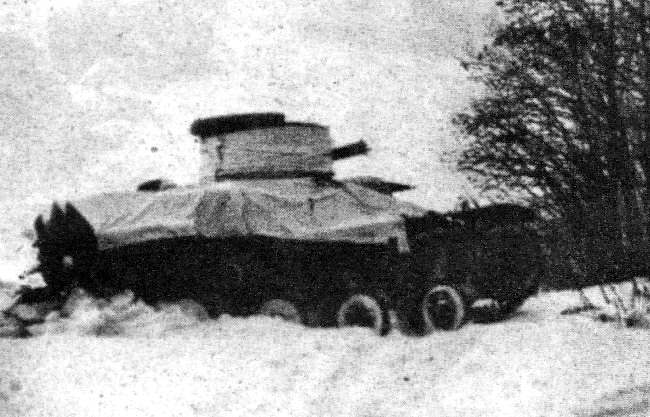 A Landsverk L-120 light tank - the first tank operated by the Norwegian Army - taking part in military winter exercises.